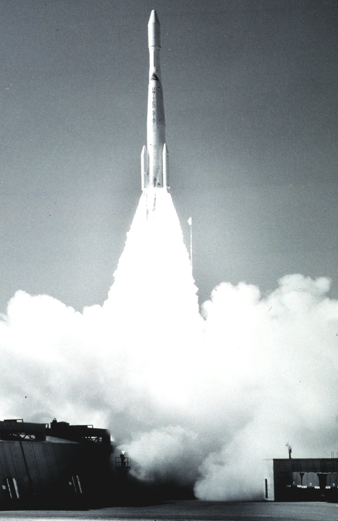 ESSA 6 lifts off. Launch Vehicle was Delta 54.